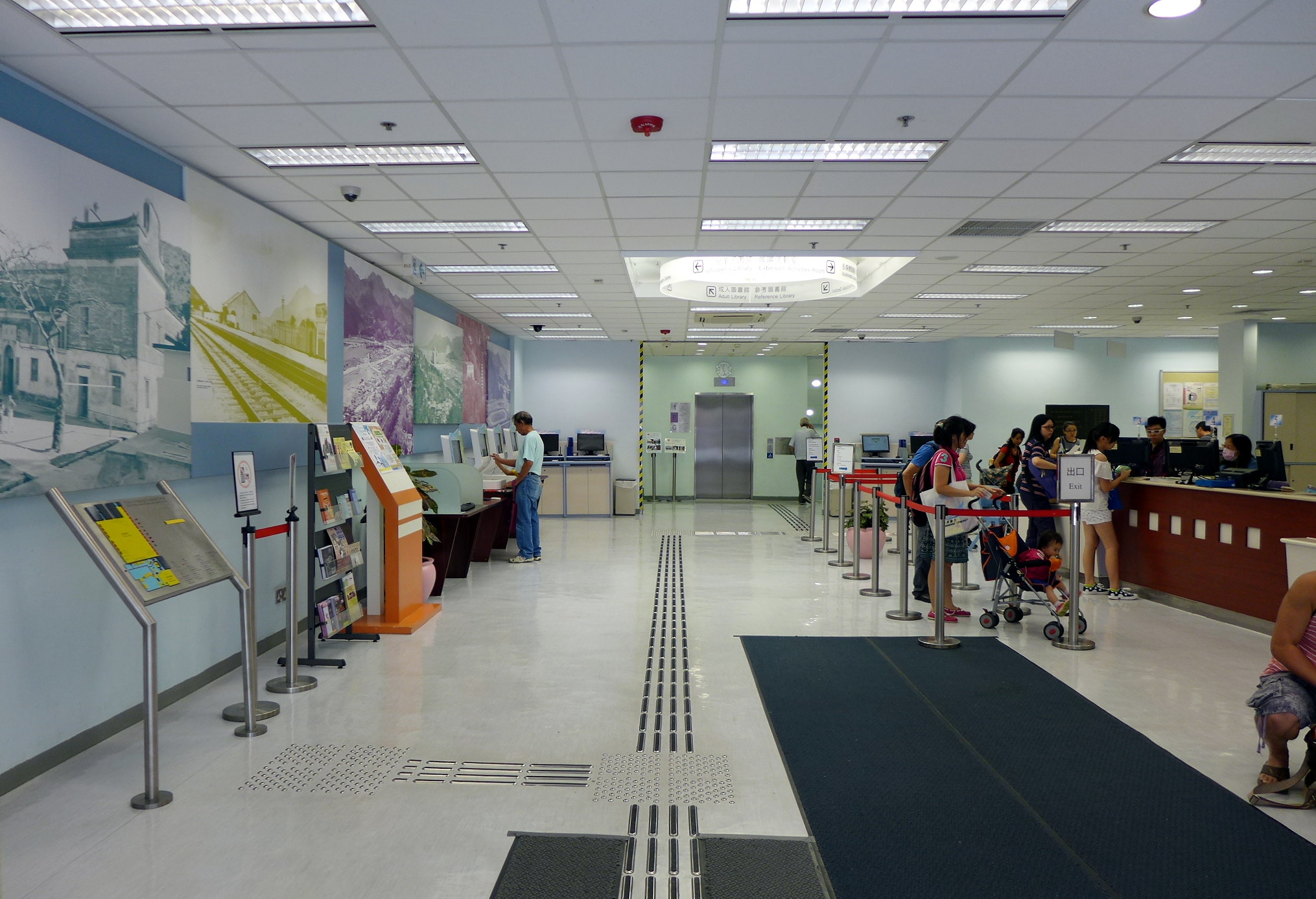 Sha Tin Public Library Lobby